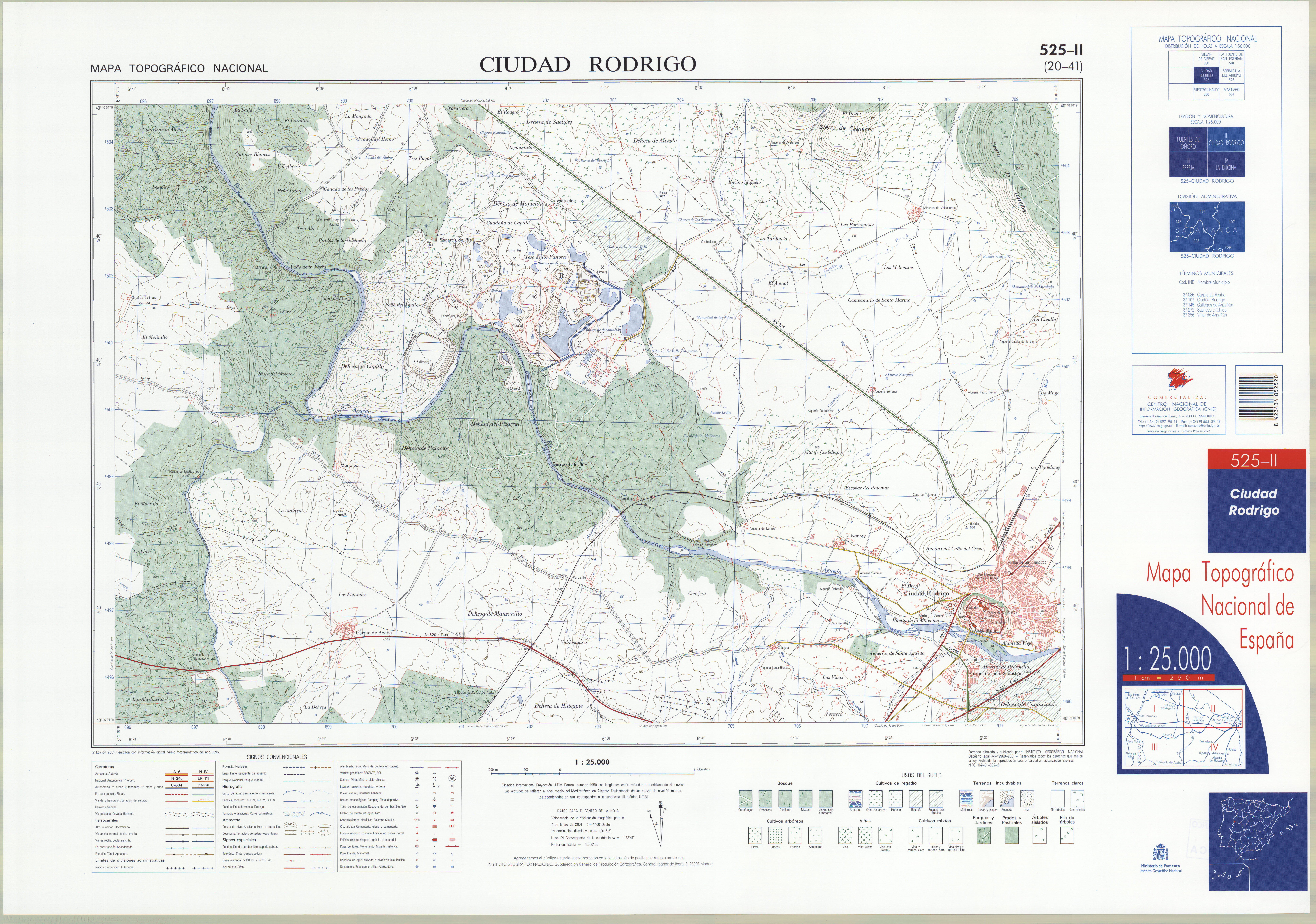 Fragment 0525c2 of the National Topographic Map of Spain in 2001 at a scale of 1:25000 printed and scanned with a resolution of 250 ppi. It shows Ciudad Rodrigo.